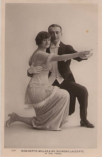 Postcard of Gertie Millar and Raymond Lauzerte in The Marriage Market 1913.